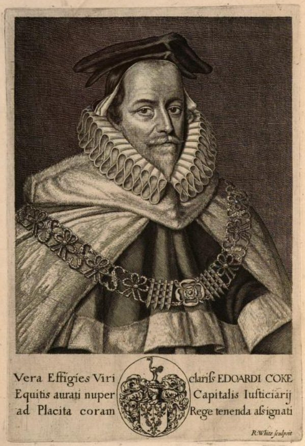 An engraved portrait of Sir Edward Coke (1 February 1552 – 3 September 1634), an English barrister, judge and, later, opposition politician, who is considered to be the greatest jurist of the Elizabethan and Jacobean eras.